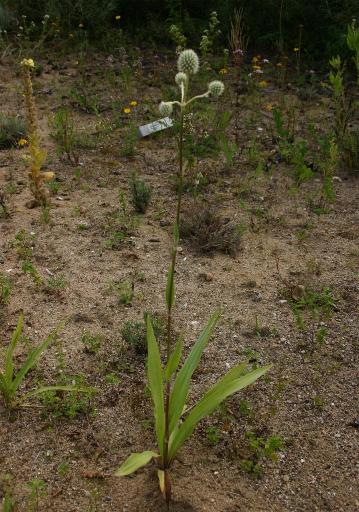 Eryngium agavifolium: Habitus - or perhaps: Eryngium yuccifolium (se discussion)